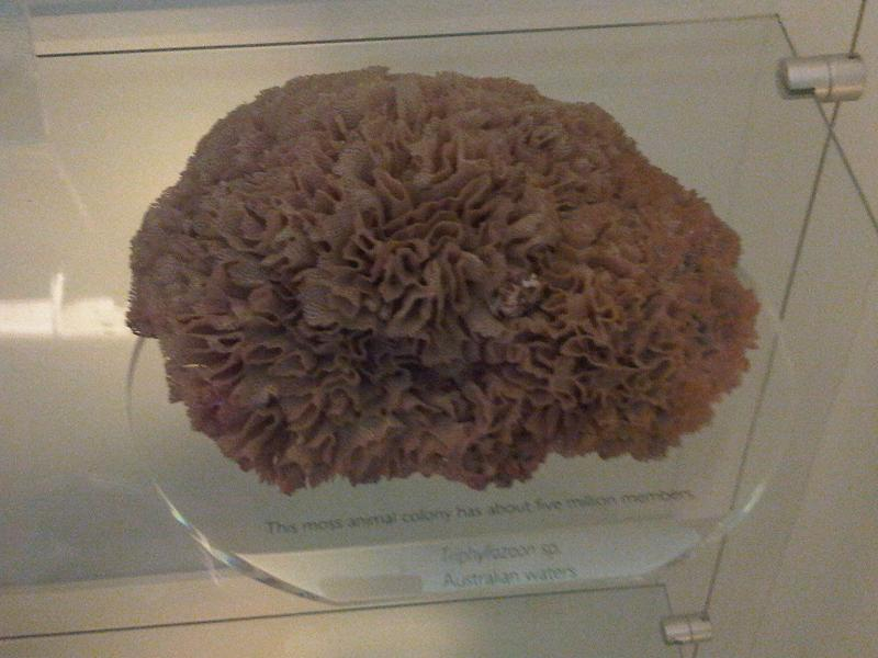 Triphyllozoon sp. (moss animal - Bryozoa) at the Natural History Museum in London, England.